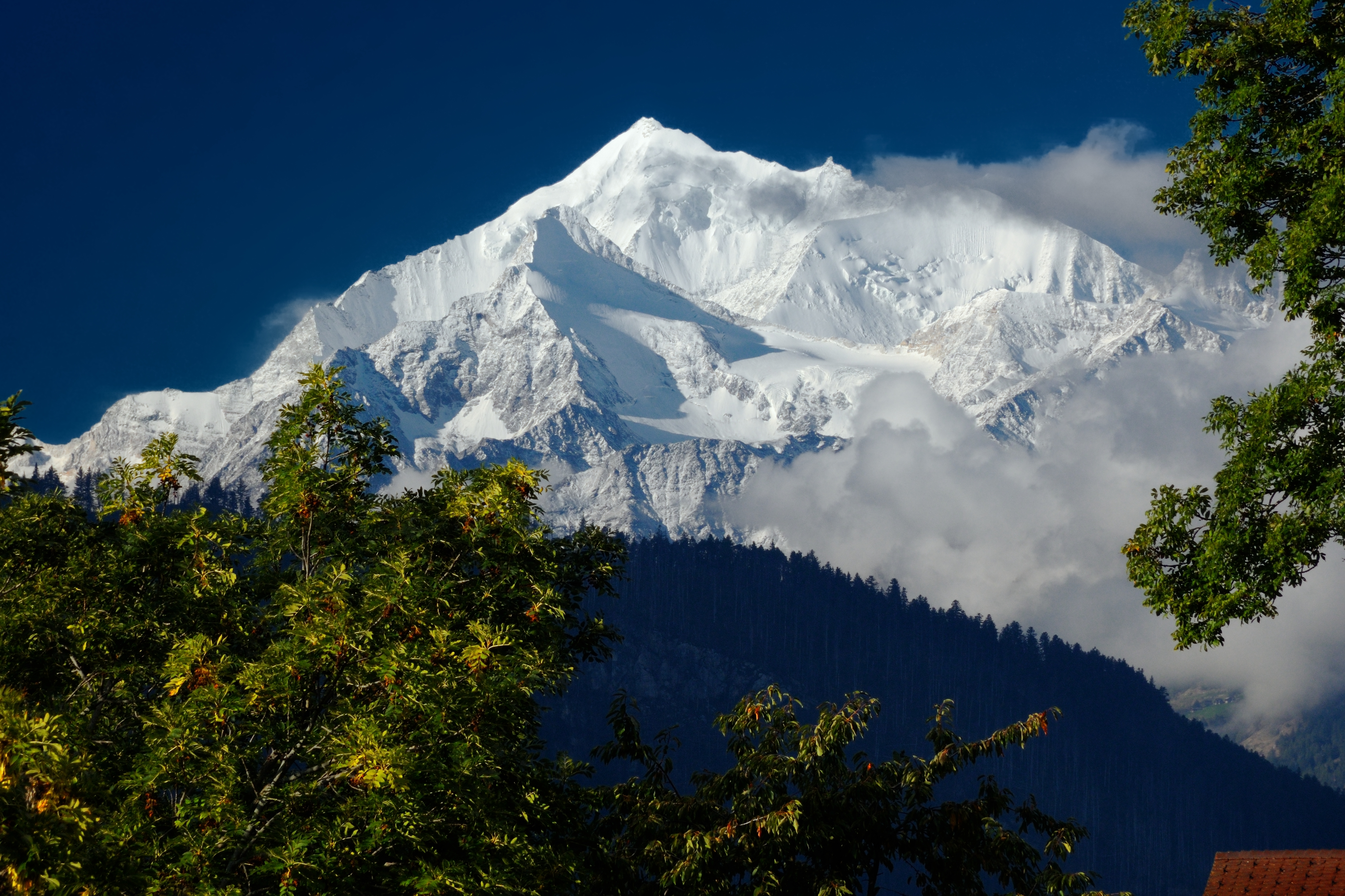 The Weisshorn range of the Pennine Alps from Mund (Valais)